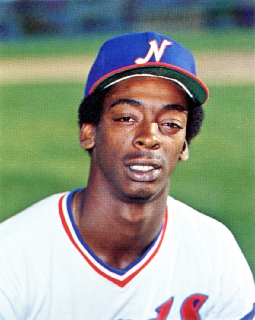 Outfielder Willie McGee of the 1981 Nashville Sounds Minor League Baseball team of the Southern League